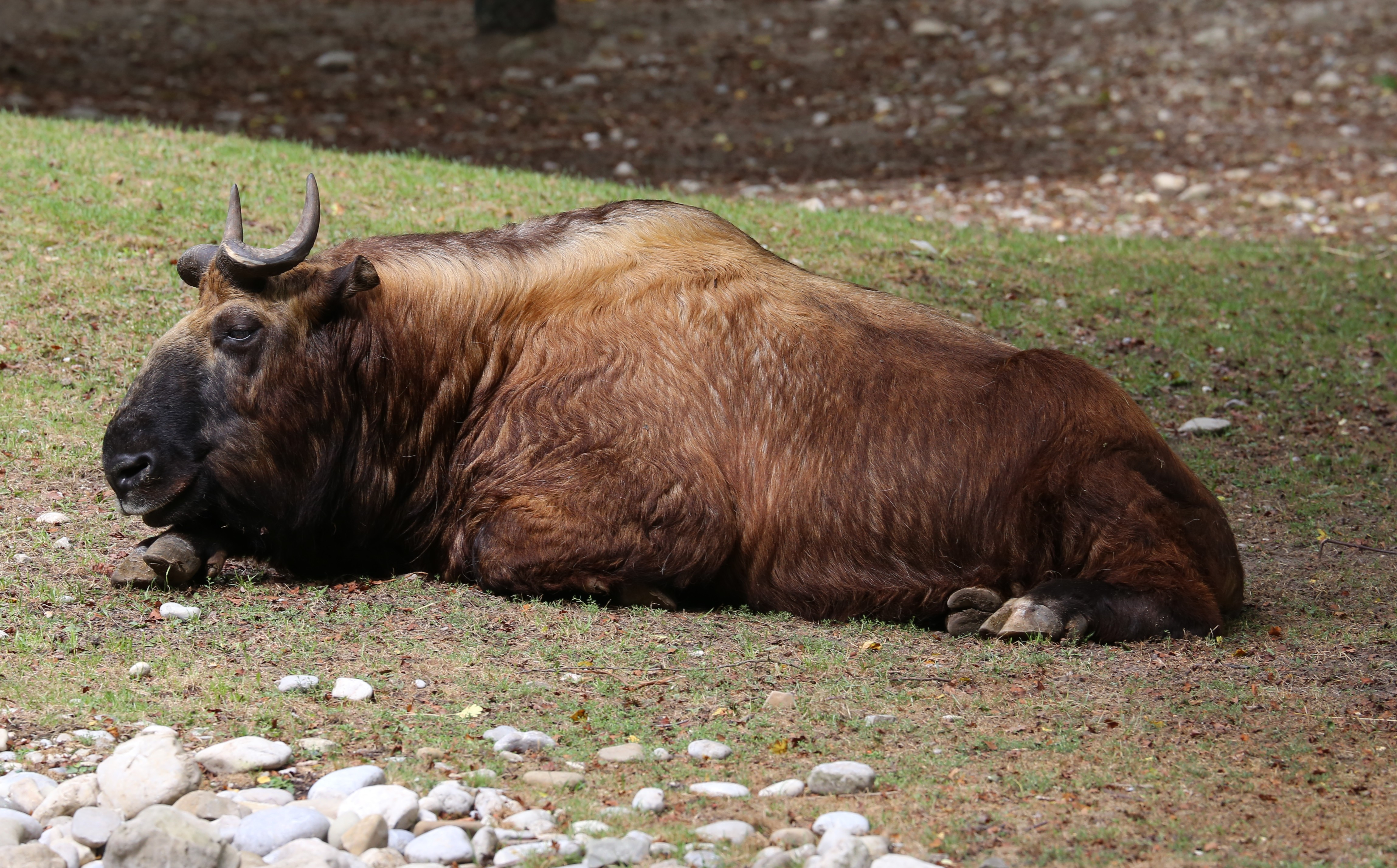 Takin (Budorcas taxicolor), Tierpark Hellabrunn, München